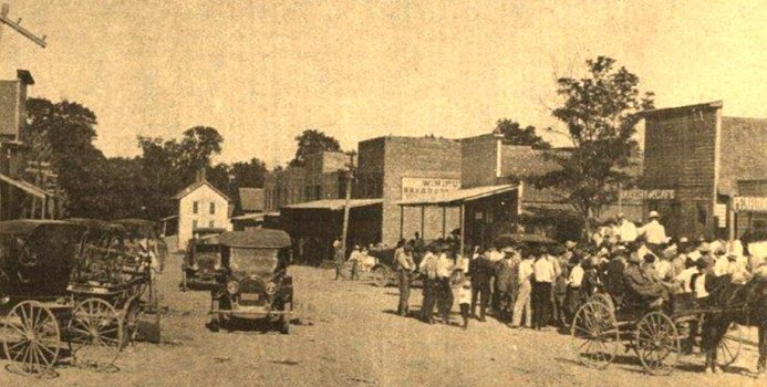 Downtown Pea Ridge, Arkansas in 1914. The white structure at the end of the street was a hotel operated by the Martin family, which burned down around 1920.